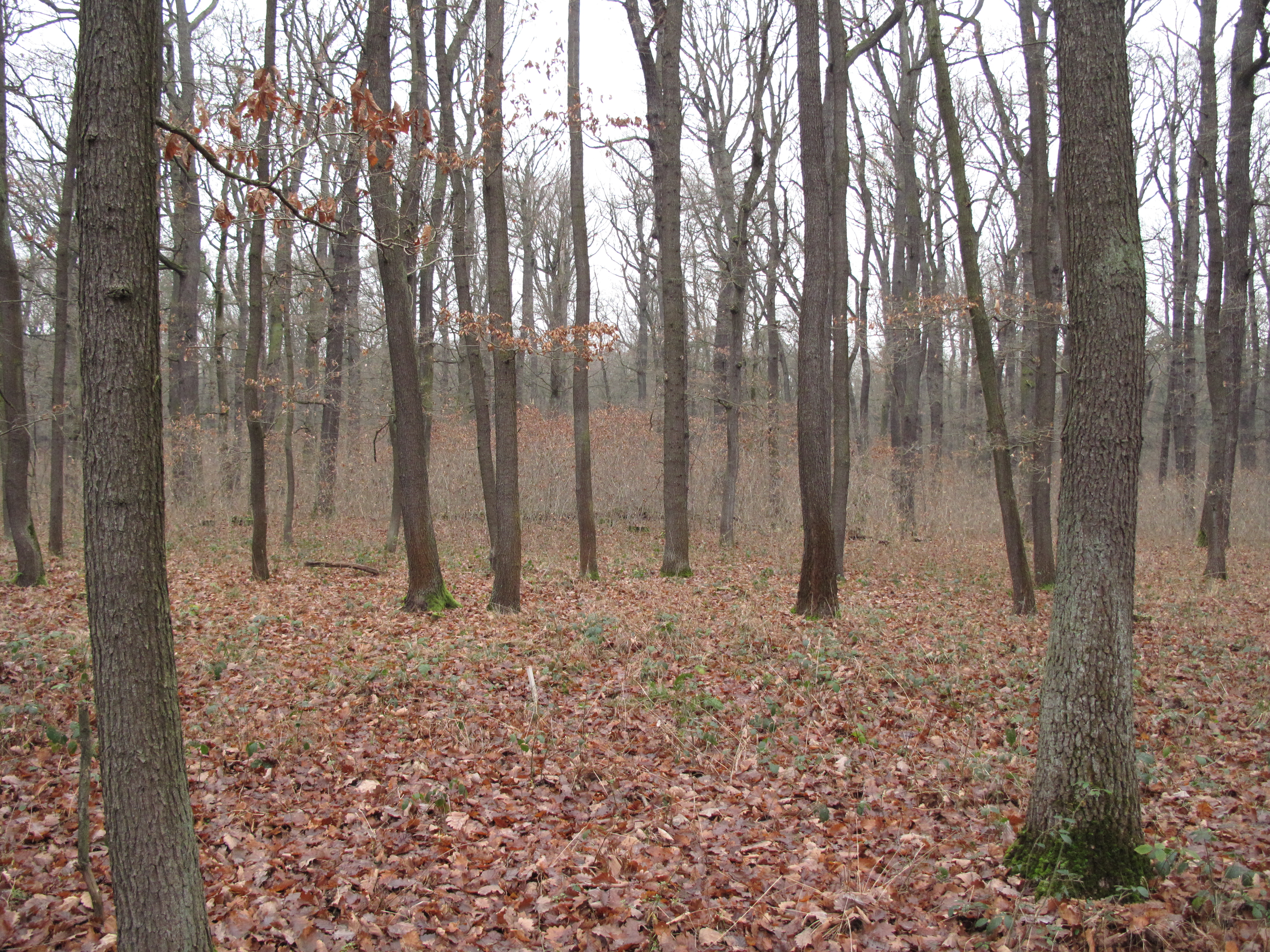 Forest in the natural monument Černý orel, Mladá Boleslav District, Czech Republic.